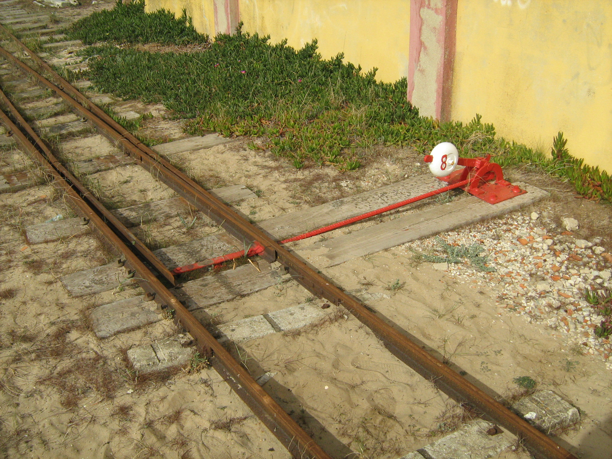 Railway switch of a Decauville track from the Transpraia train in Costa da Caparica, Portugal